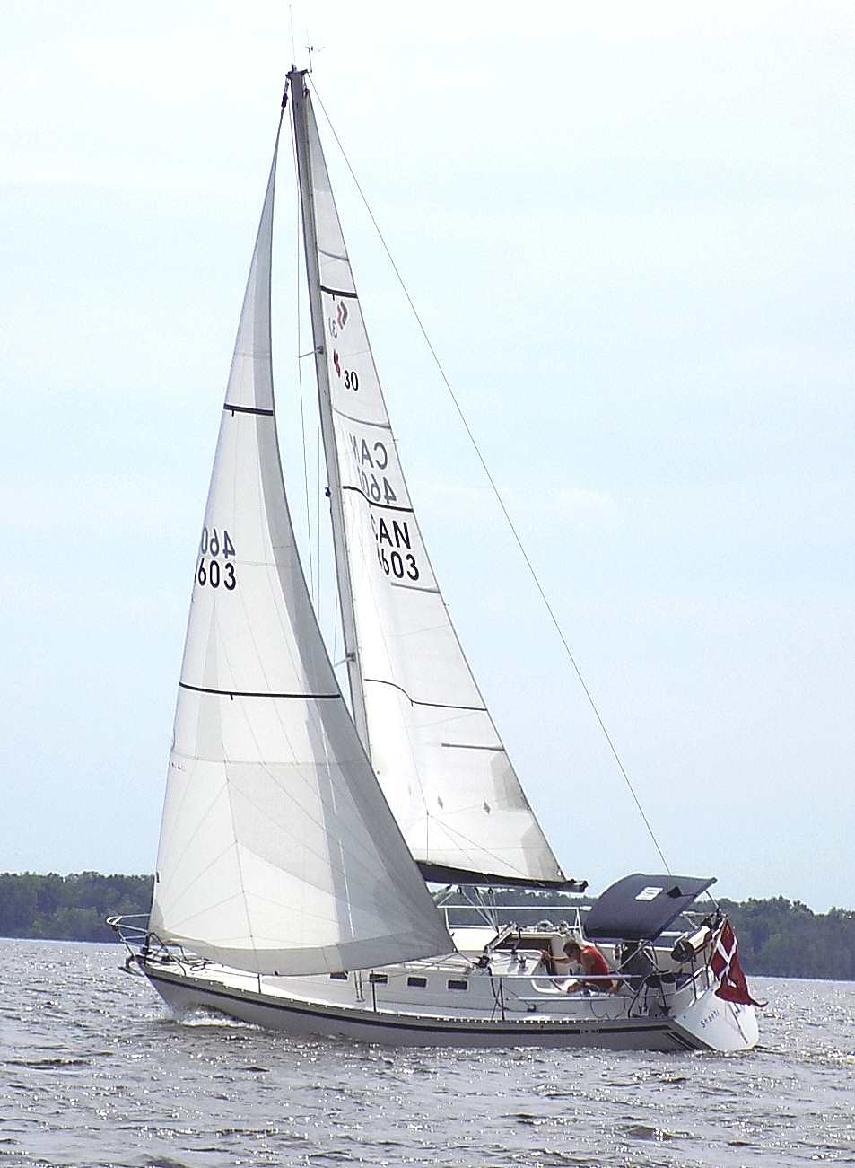 A CS 30 sailboat named Shanti.